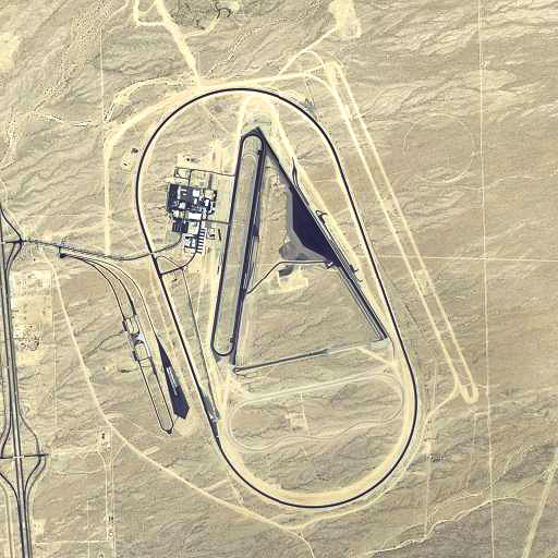 USGS digital orthophoto of Yucca Army Airfield, a former military airfield located near Yucca, Arizona, United States